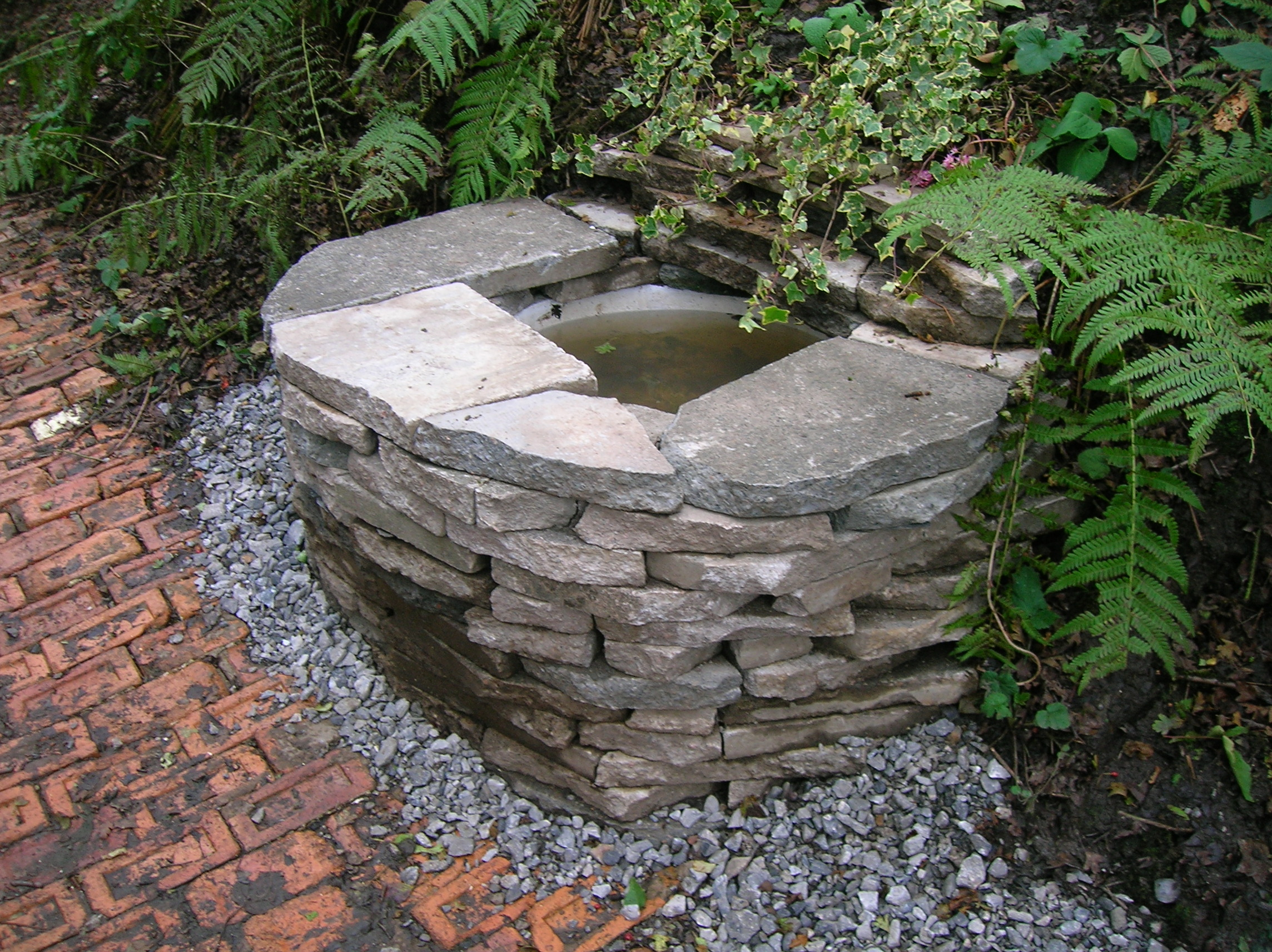 Wishing Well at the Vale Grove, Barrmill, North Ayrshire, Scotland